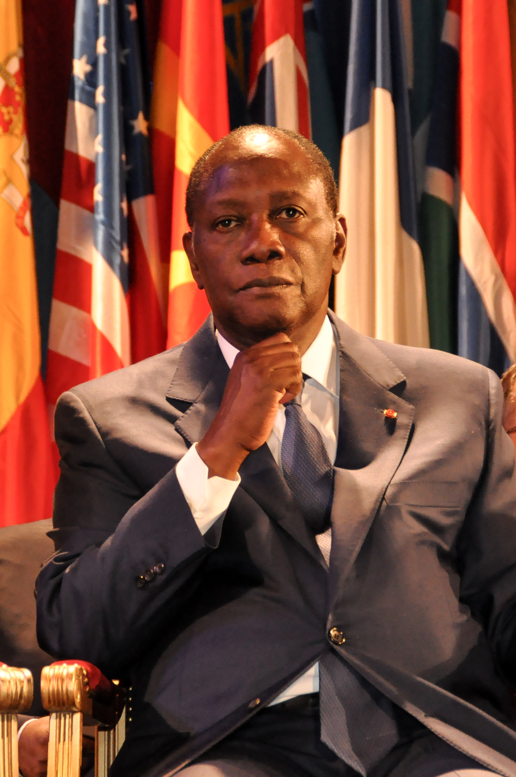 Alassane Ouattara, President of Côte d'Ivoire, attending the award ceremony of the Félix-Houphouët-Boigny for research of peace prize at UNESCO on 14th September 2011.